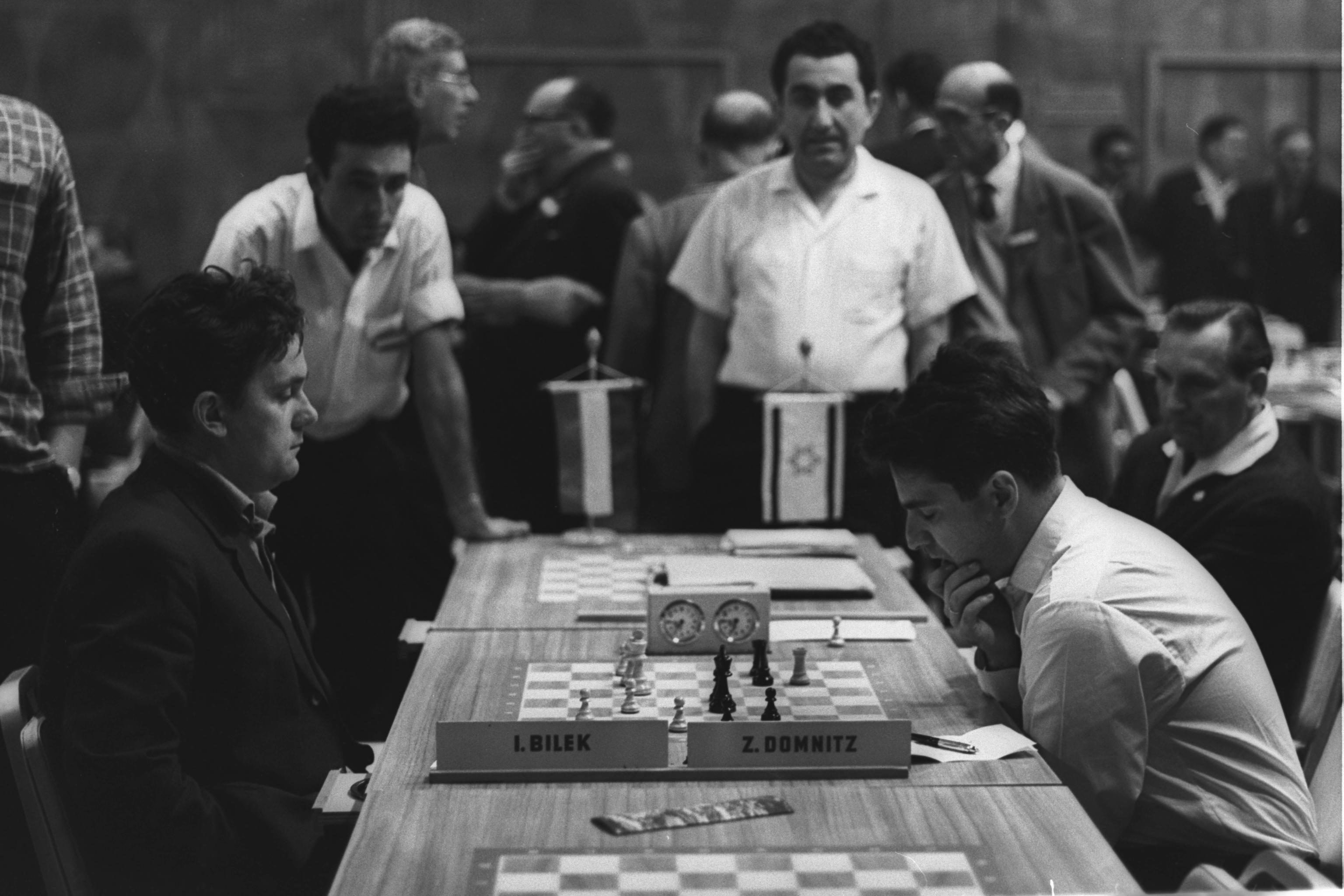 A CHESS GAME BETWEEN AN ISRAELI & A HUNGARIAN OPONENT, HELD AT TEL AVIV'S "SHERATON" HOTEL DURING THE WORLD CHESS OLYMPIAD.